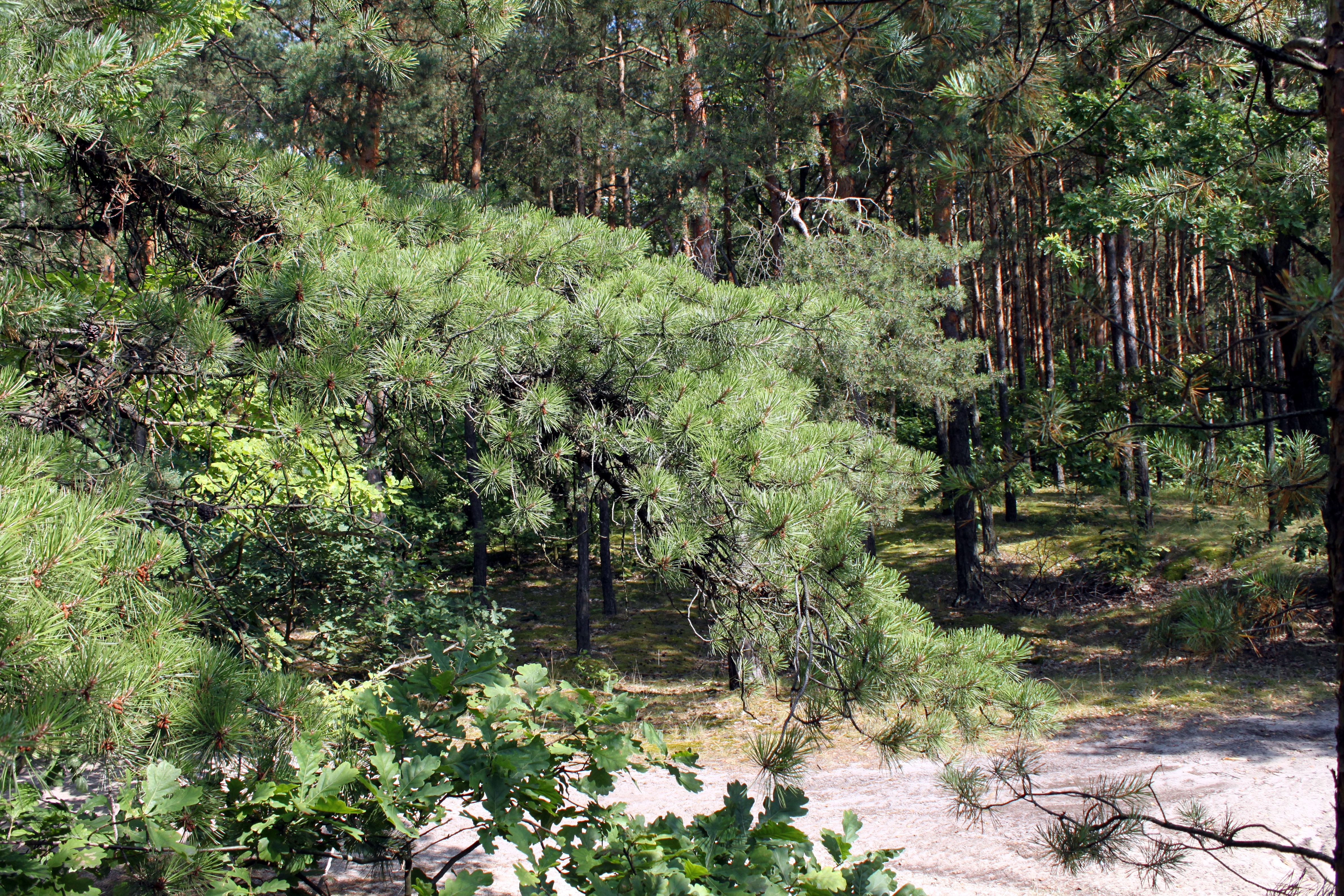 Pitch Pine (Pinus rigida) branch, nadleśnictwo Drewnica, Poland